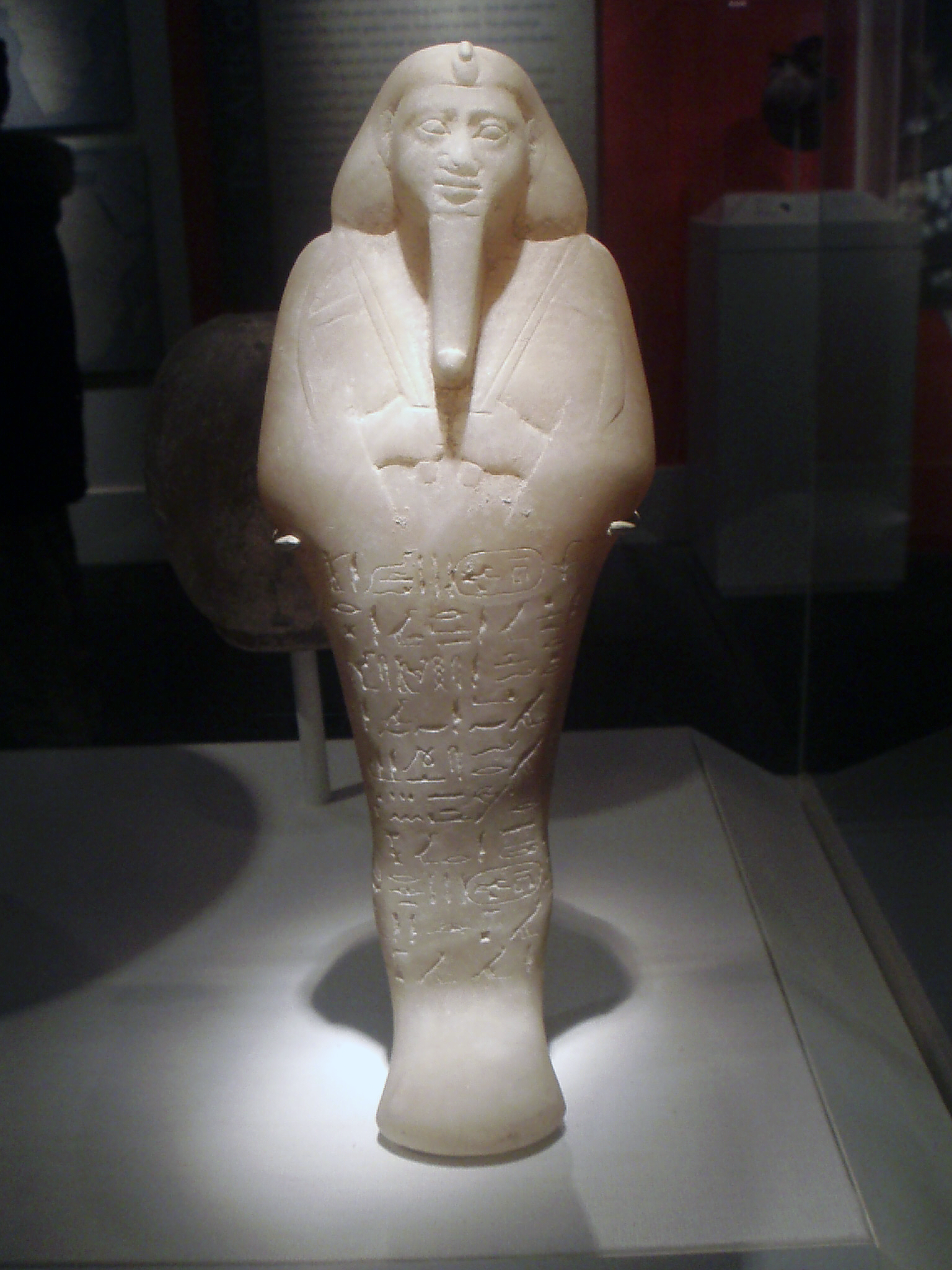 Shabti of Taharqa, from his pyramid tomb in Nuri, Nubia. Dynasty 25, circa 690-664 BC. Egyptian alabaster.